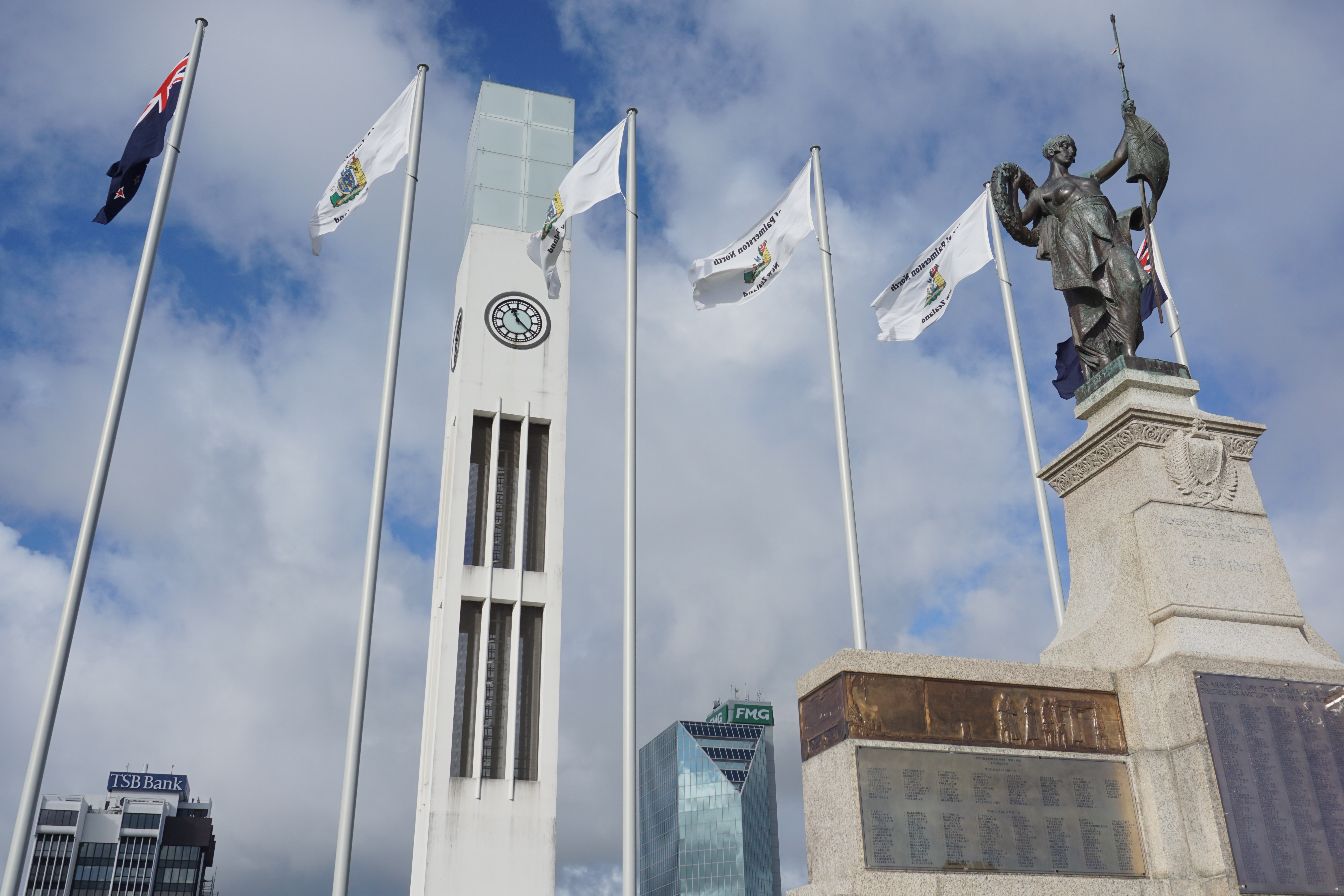 Clock Tower at the Square, Palmerston North. Palmerston north city flag with New Zealand Flag Palmerston North Central Business District in the background and ANZAC memorial at the front.